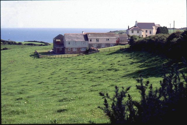 Newton Farm Newton Farm's outbuildings have been converted to holiday lets, typical farm diversification near the Cornish coast. The photo was taken looking alongside the access lane to the farm, the hedgerow on the right.